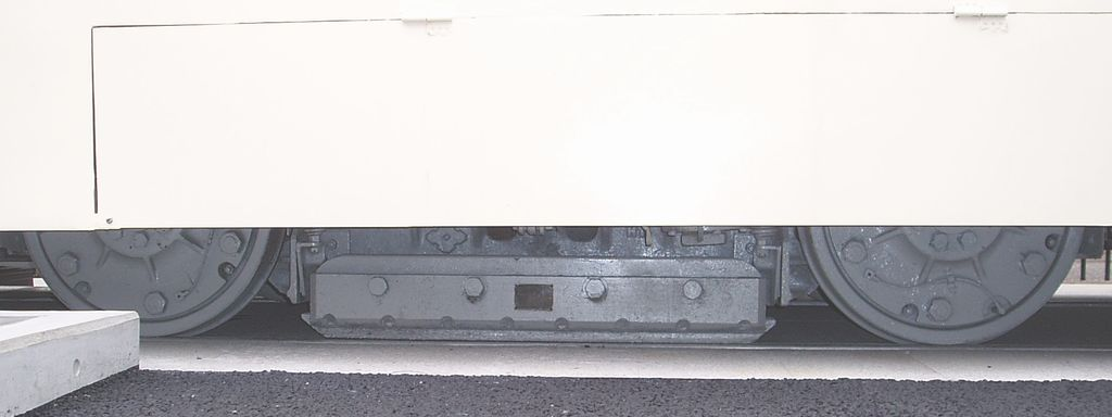 Bogie truck FS501 of Tokyo Metropolitan Bureau type 5500. 東京都交通局5500形の台車 2007.06.09 Photo by Cassiopeia_sweet.